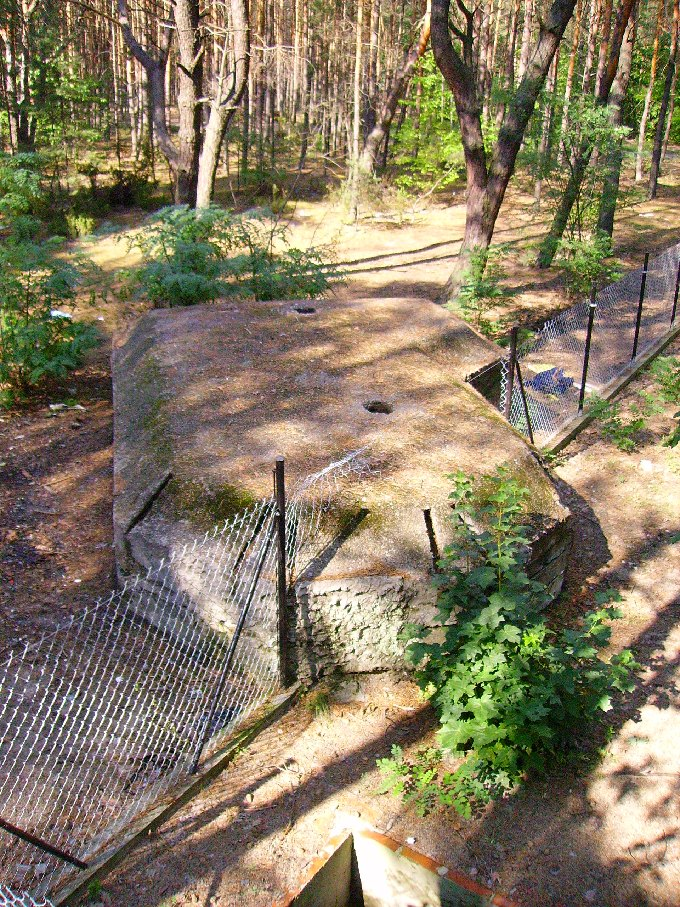 World War I bunker in Józefów, Otwock County, Poland.